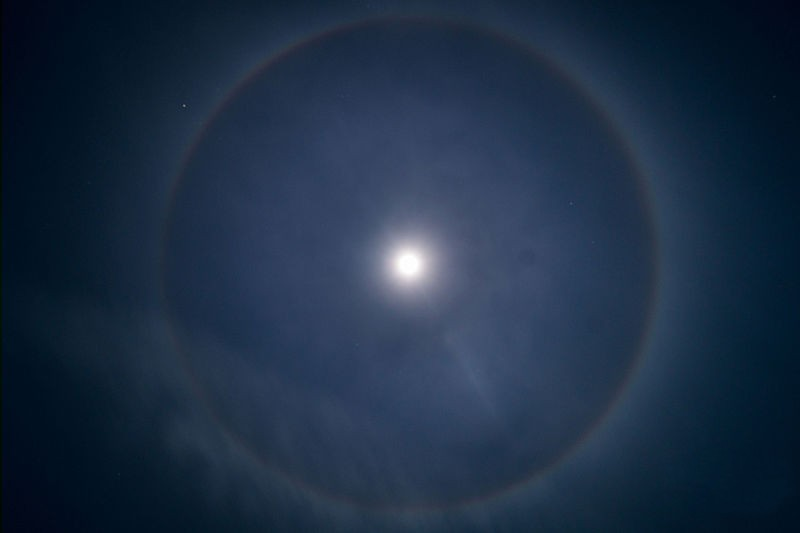 46 degree Lunar Halo